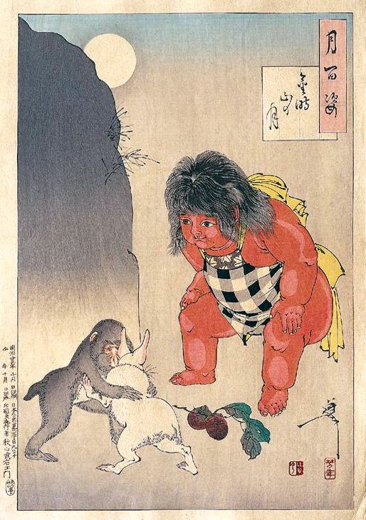 Moon of Kintoki's mountain (Kintokiyama no tsuki)